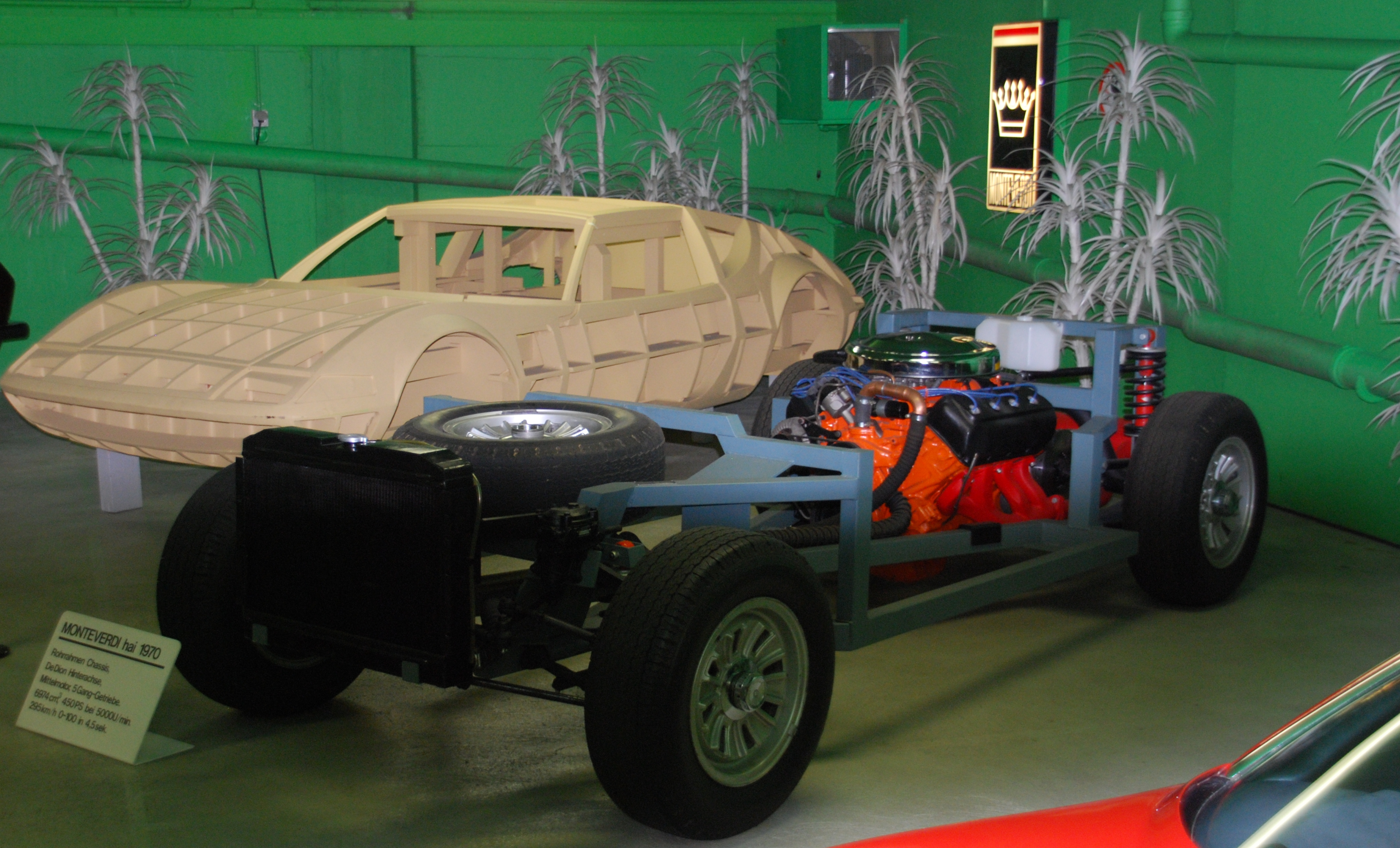 Monteverdi Hai Chassis and wood model for body, shown at Monteverdi Museum in Basel, Switzerland.